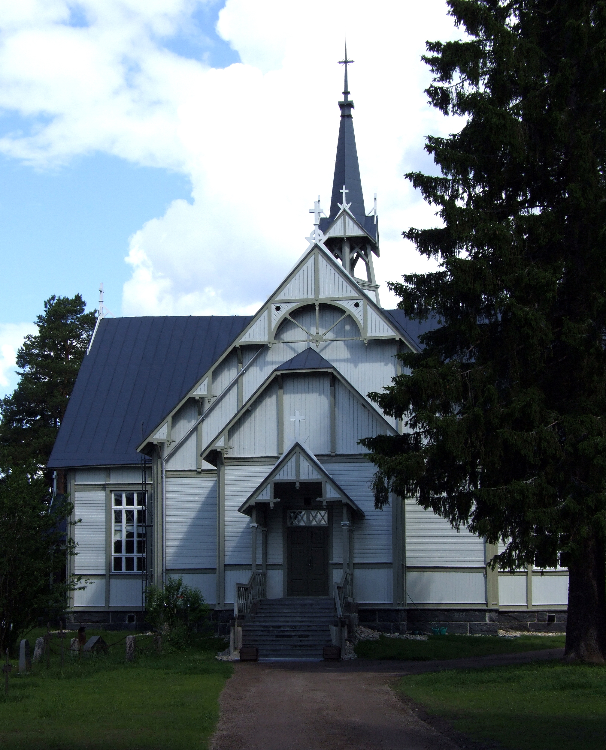 Pulkkila church in Pulkkila, Finland. Completed in 1909, designed by architect Josef Stenbäck.